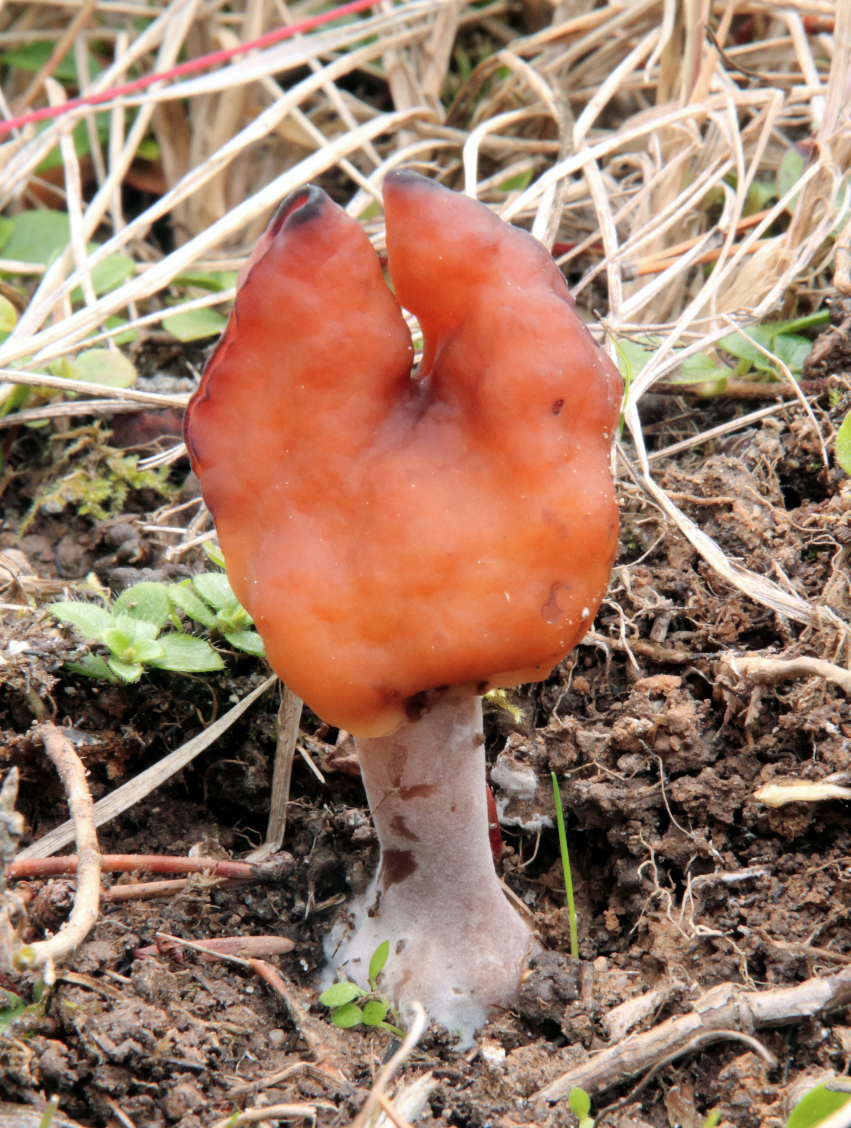 A fruit body of the fungus Gyromitra infula (Schaeff.) Quél. Specimen photographed in Banff, Canada.